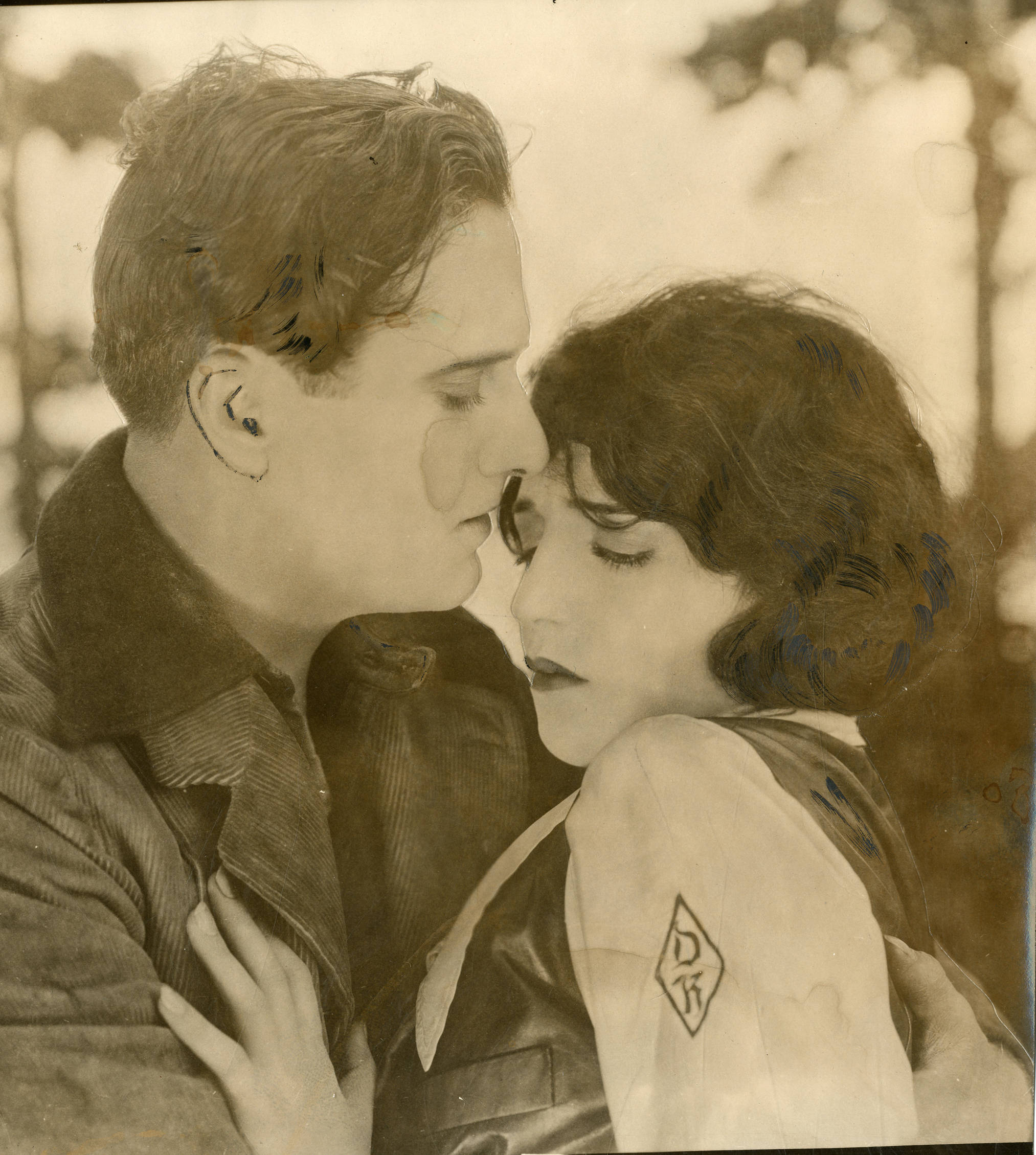 Still from the American drama film His Children's Children (1923). Subjects: motion pictures, actors, actresses